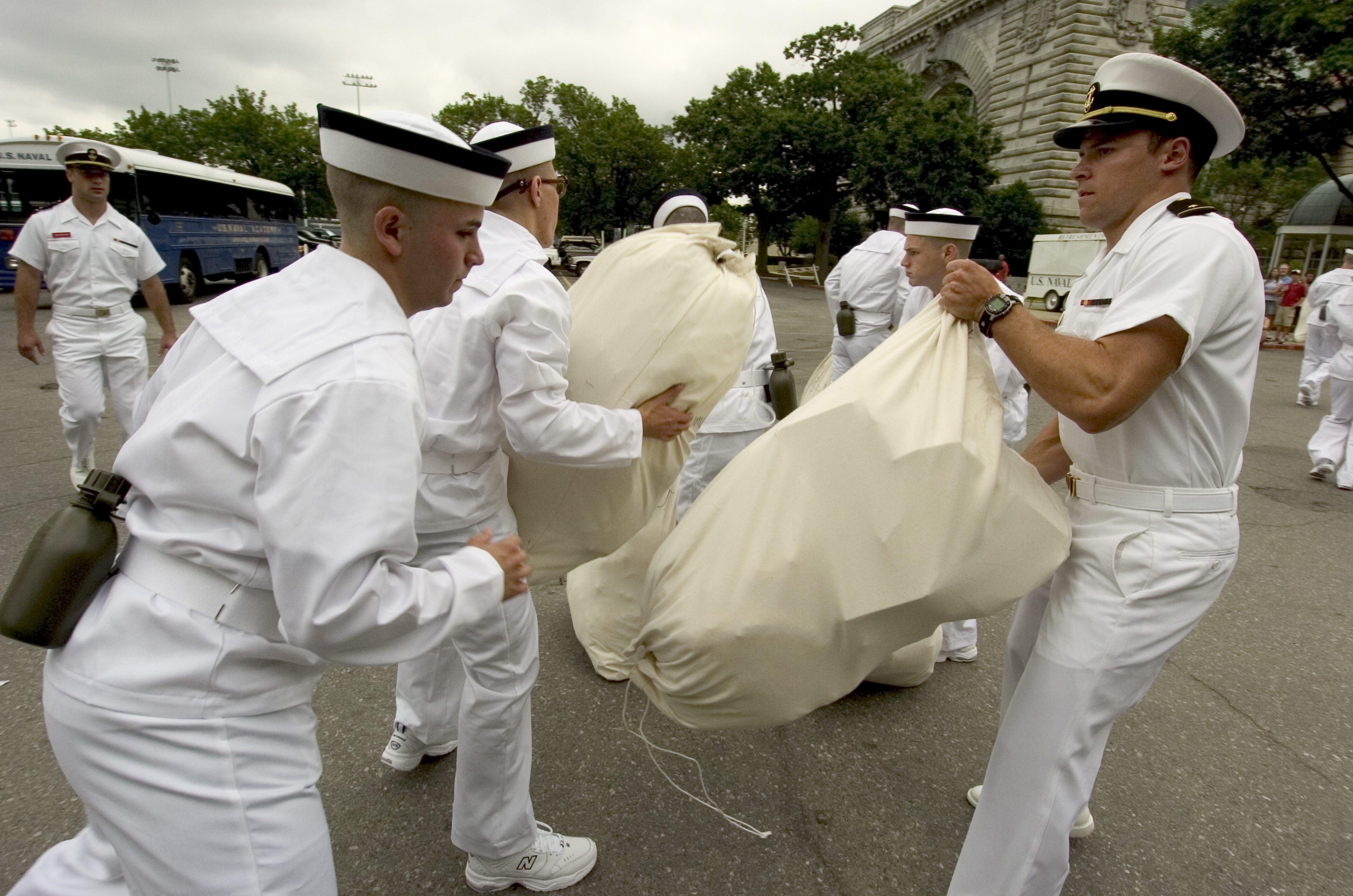 Annapolis, Md. (June 29, 2005) - Prospective Midshipmen retrieve their "Sea Bags" under instruction from a 1st Class Midshipman prior to entering Bancroft Hall at the United States Naval Academy in Annapolis, Md. Approximately 1200 prospective Midshipmen 4th Class, “Plebes," reported to the Academy for Induction into the class of 2009 and the first day of Plebe summer. The Plebes were cycled through a series of stations to establish medical and dental records, receive uniforms, complete paperwork and receive their military haircut. U.S. Navy photo by Mr. Damon J. Moritz (RELEASED)